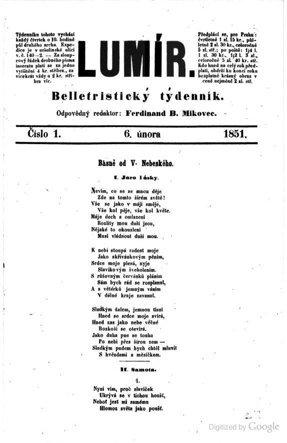 Lumír - Beletristic Weekly, Issue 1, page 1